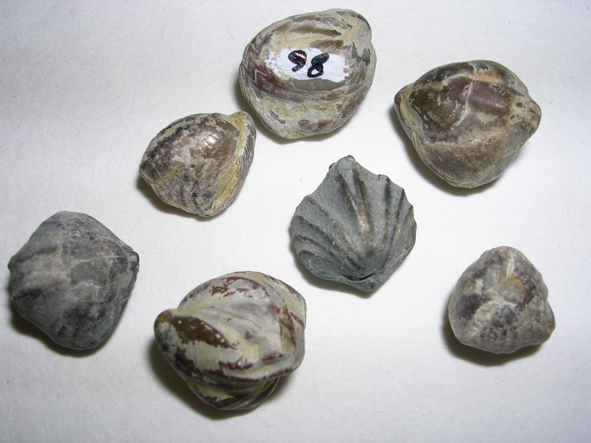 Rhynchonellida fossil (Jurassic) founded in Villaviciosa (Asturias), in a laboratory of practices of the Faculty of Sciences of the University of Corunna.